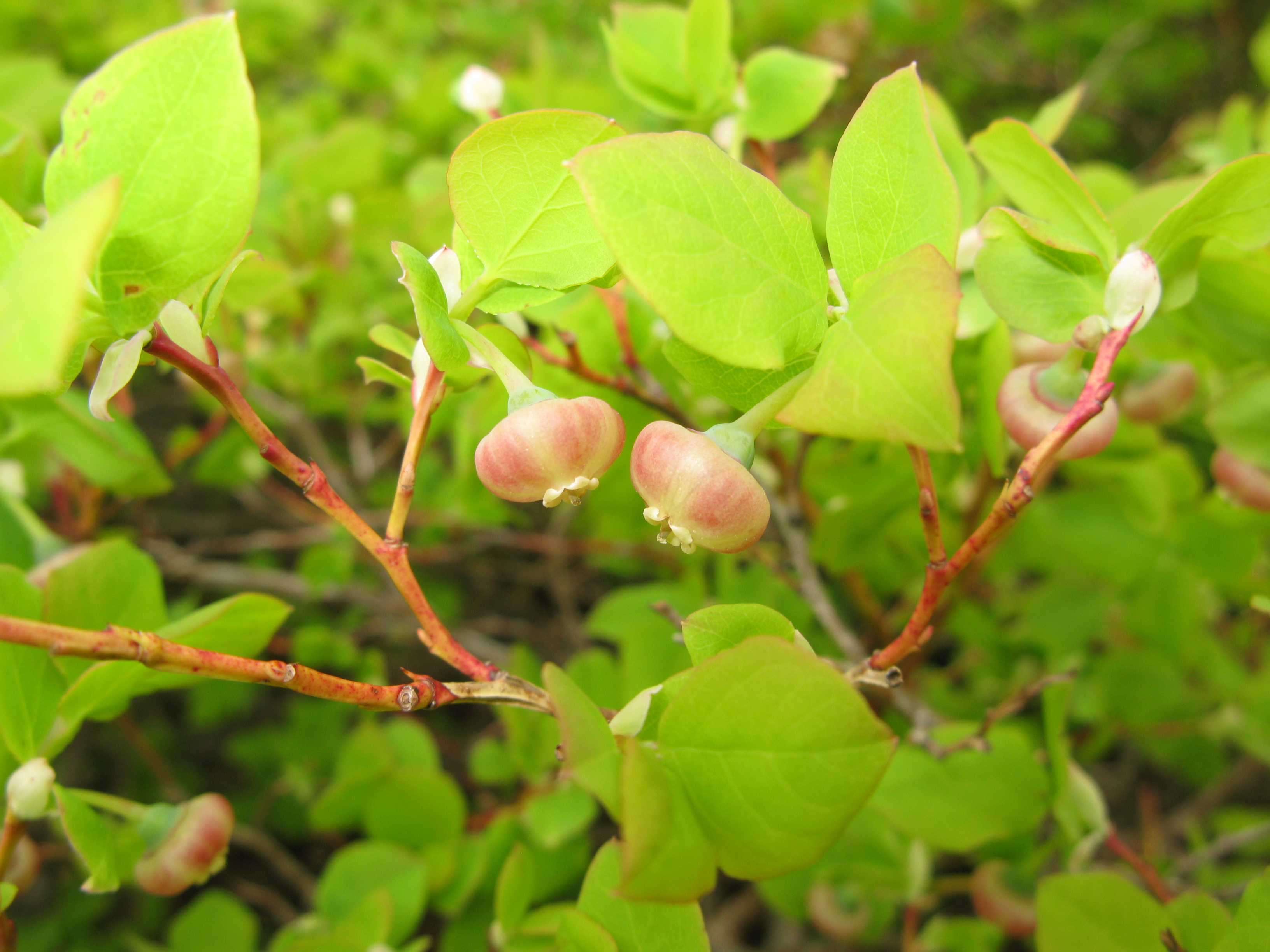 Vaccinium ovalifolium ,Mt. Higashi-Azumayama, Fukushima pref., Japan